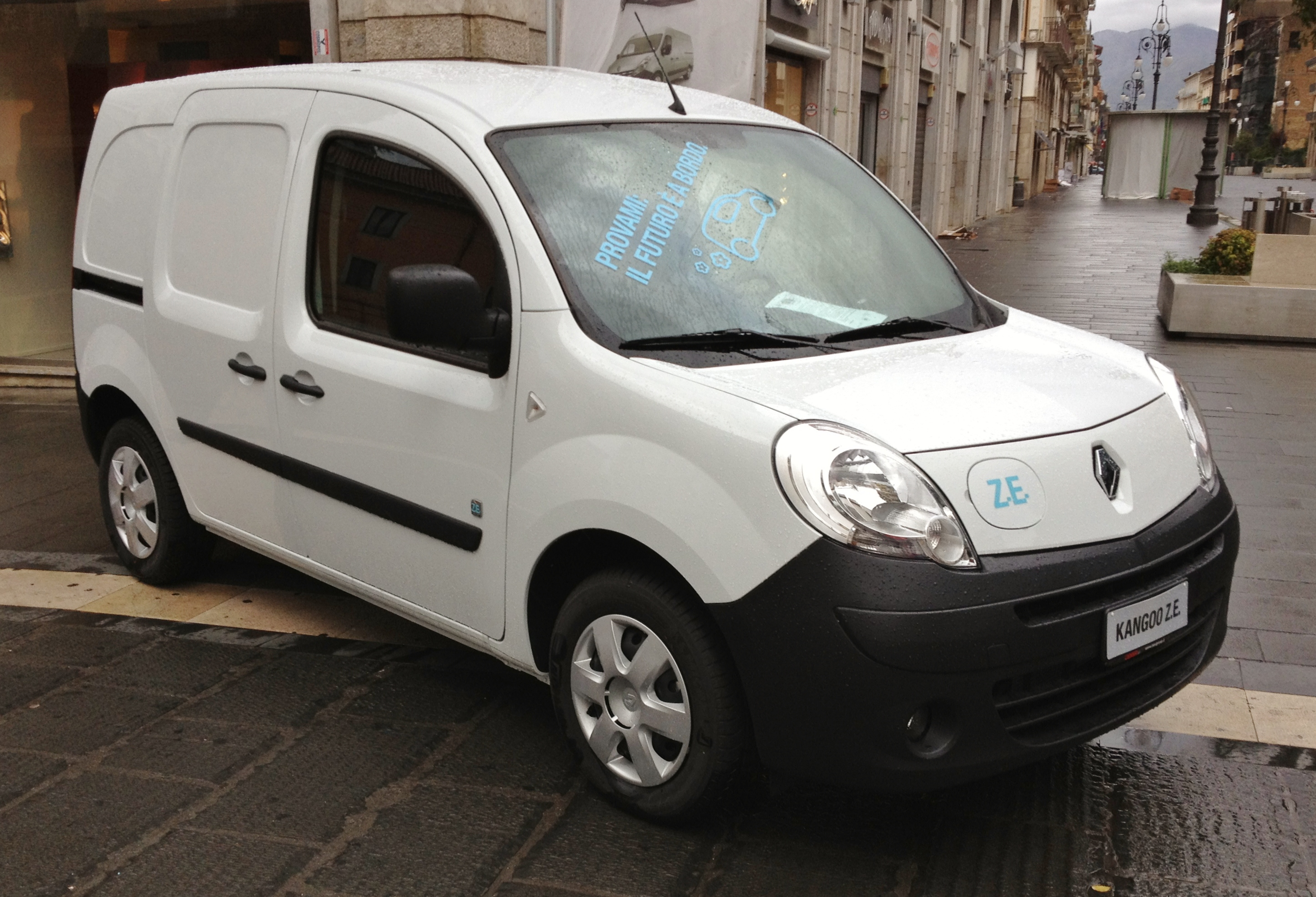 2012 Renault Kangoo Z.E. front